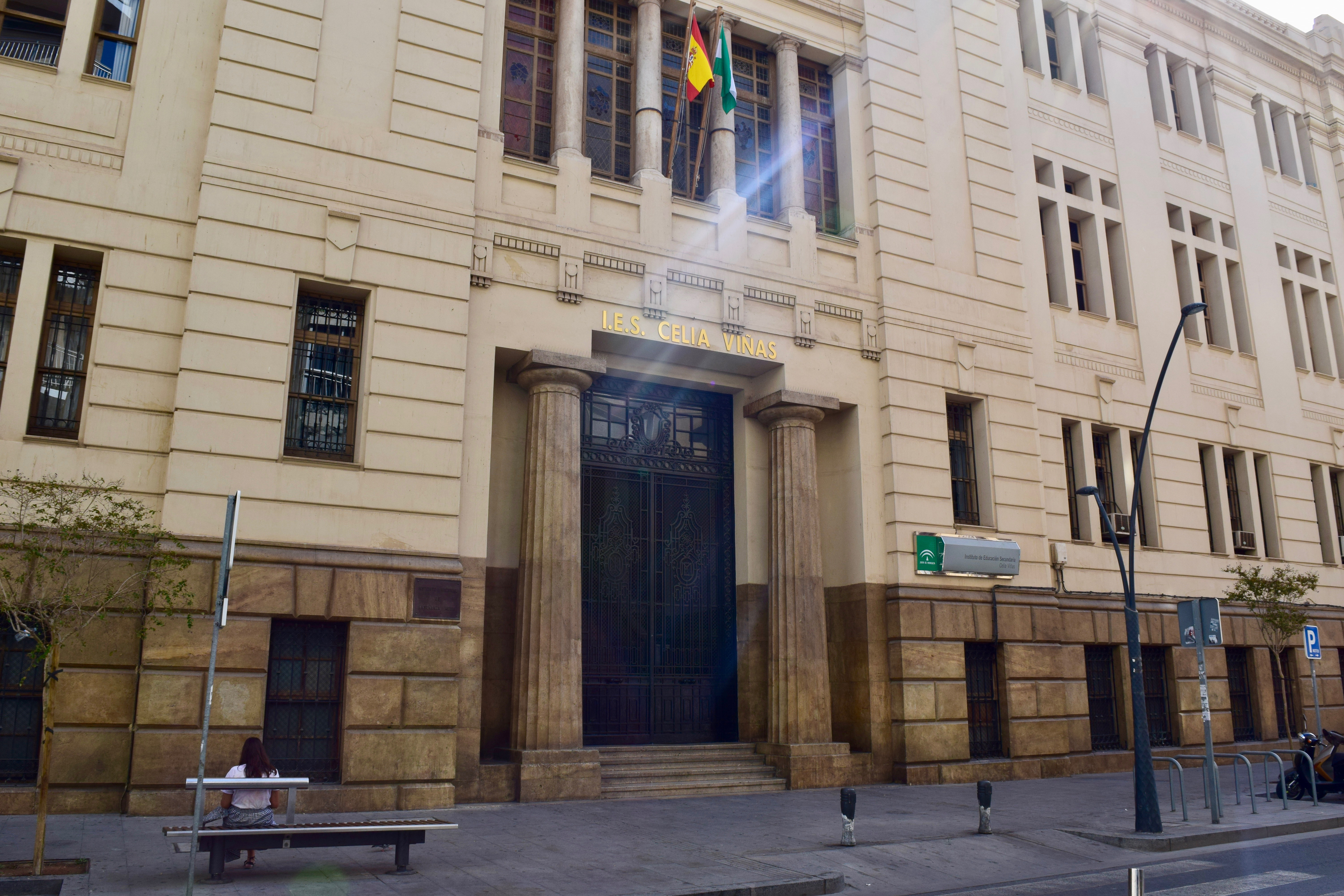 Edificio del IES Celia Viñas (Almería)